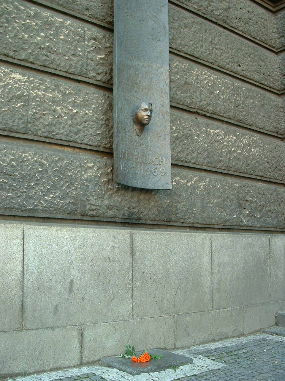 Jan Palach monument in Prague - photo by Romina and utente:Retaggio